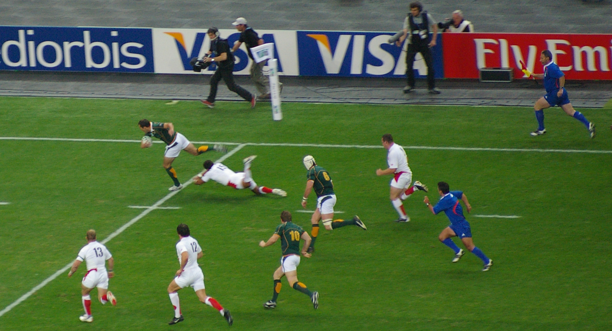 South Africa - England Rugby World Cup 2007 Saint Denis. Stade de France try